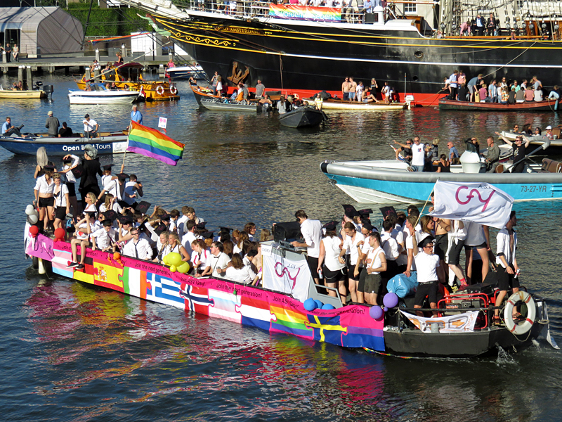 Boat of the Amsterdam LGBT student association ASV Gay participating in the Canal Parade of the Amsterdam Gay Pride 2016.